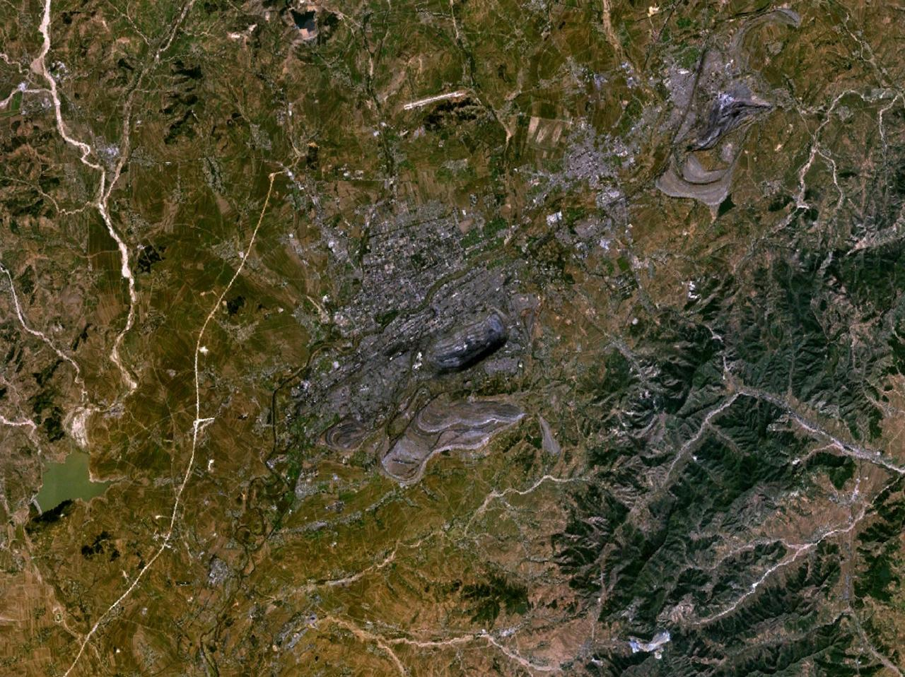 Satellite picture of Fuxin — a city of northwest Liaoning Province, in northeastern China. Located near the international border.